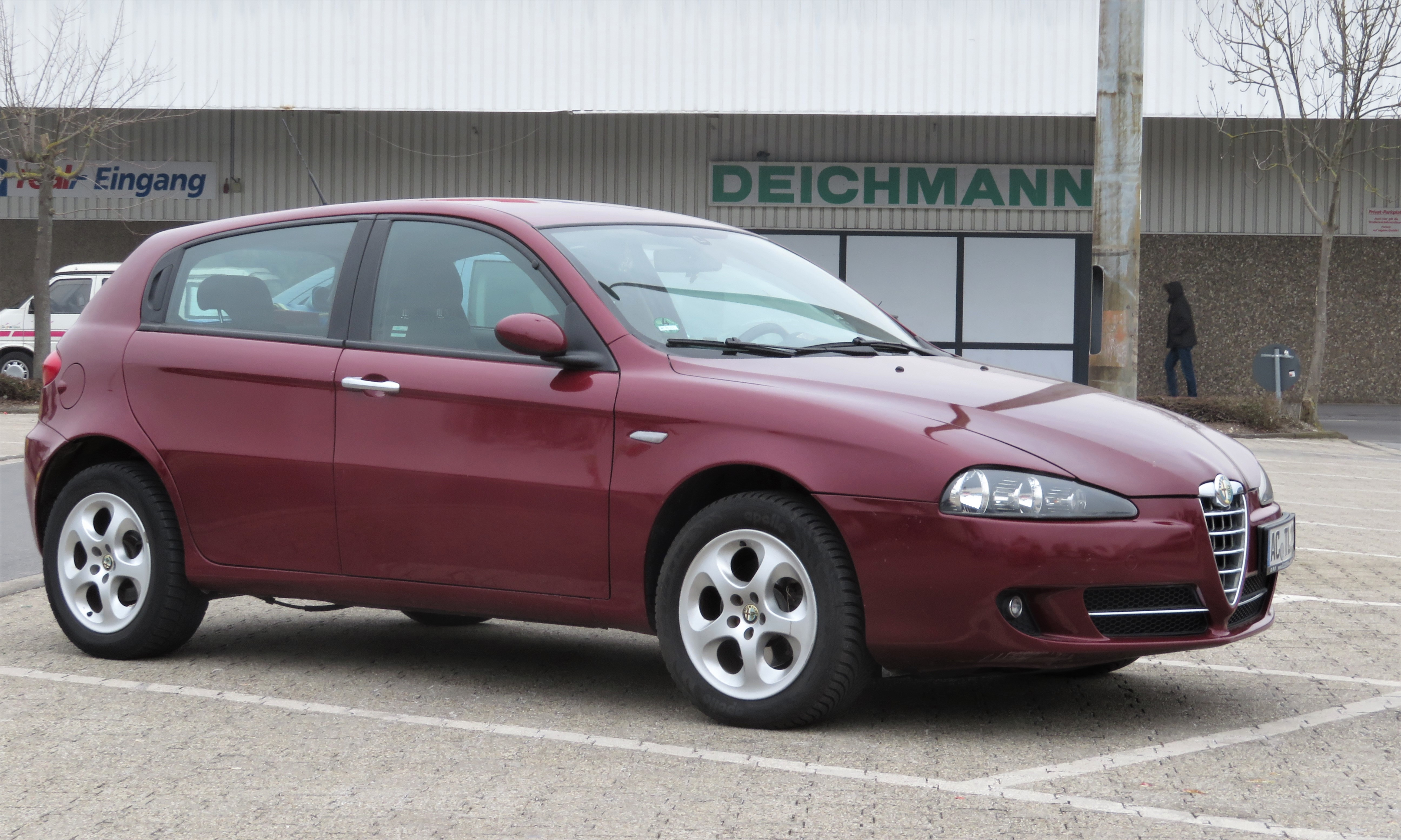 Alfa Romeo 147 (post facelift)